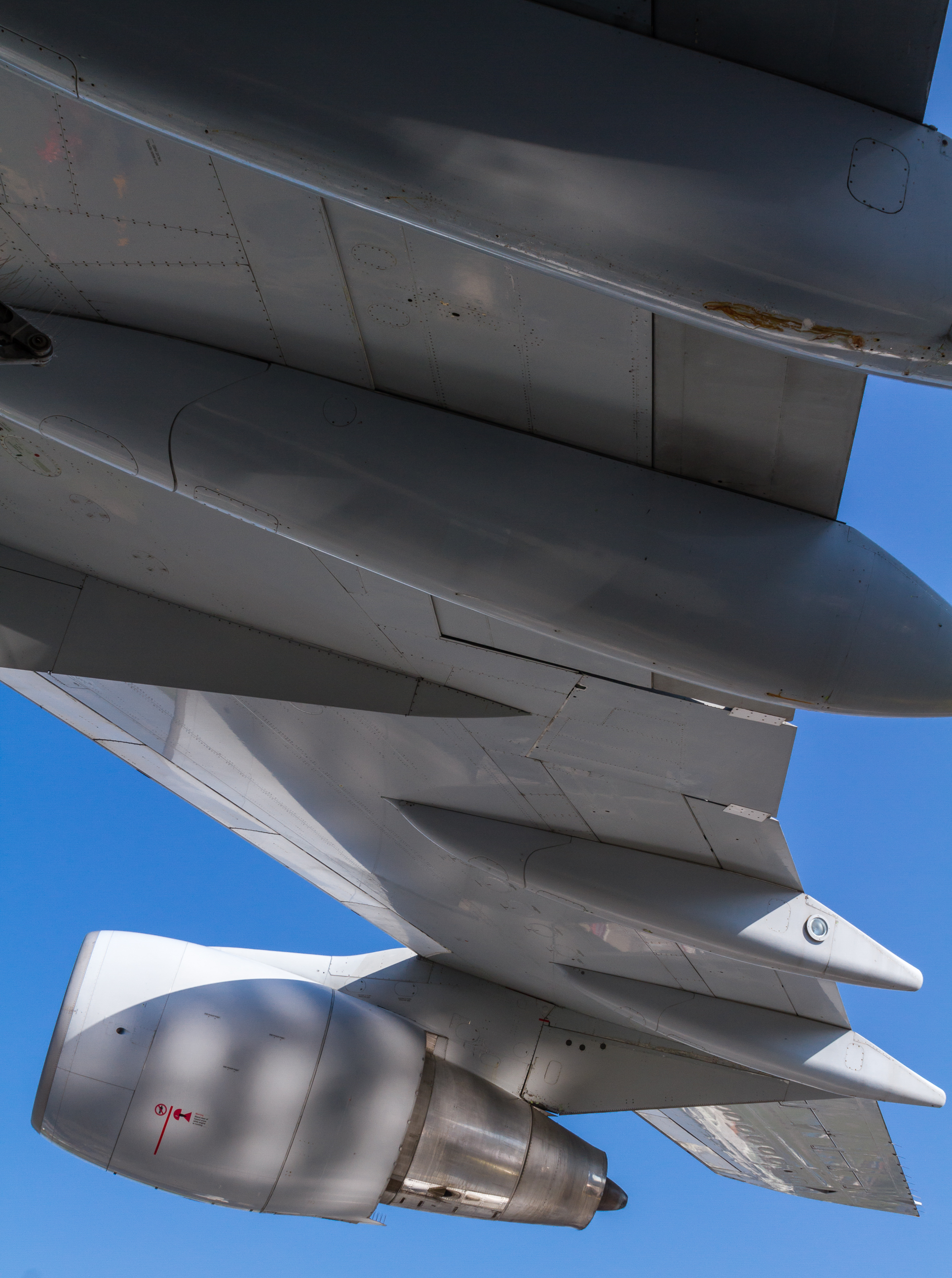 Wing with engine of a Boeing 747 (Jumbo Jet).